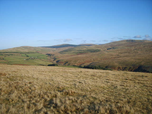 On Cold Fell Looking towards Lank Rigg and the valley of the River Calder from the top.